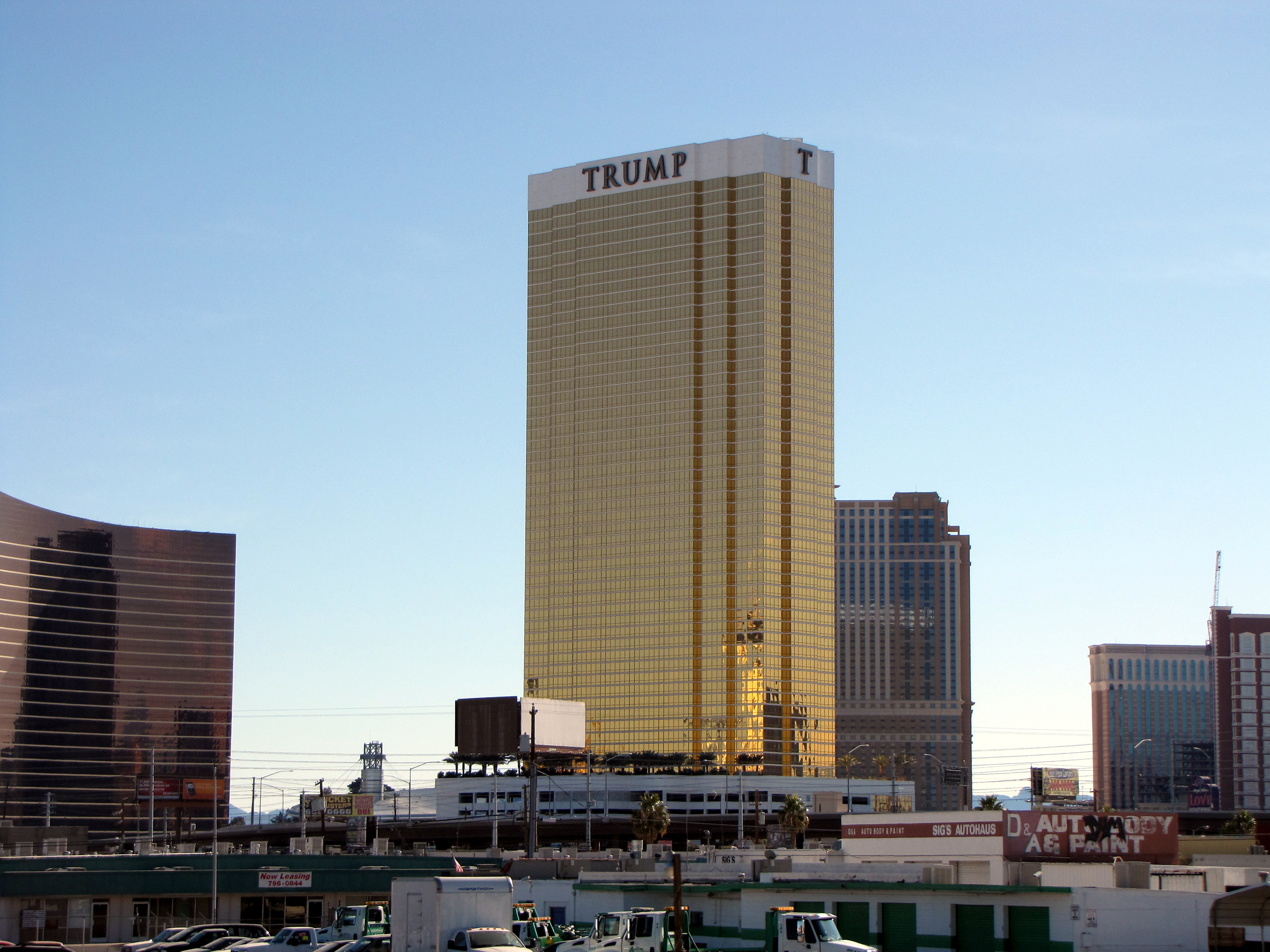 Trump hotel in Las Vegas, Nevada, U.S.